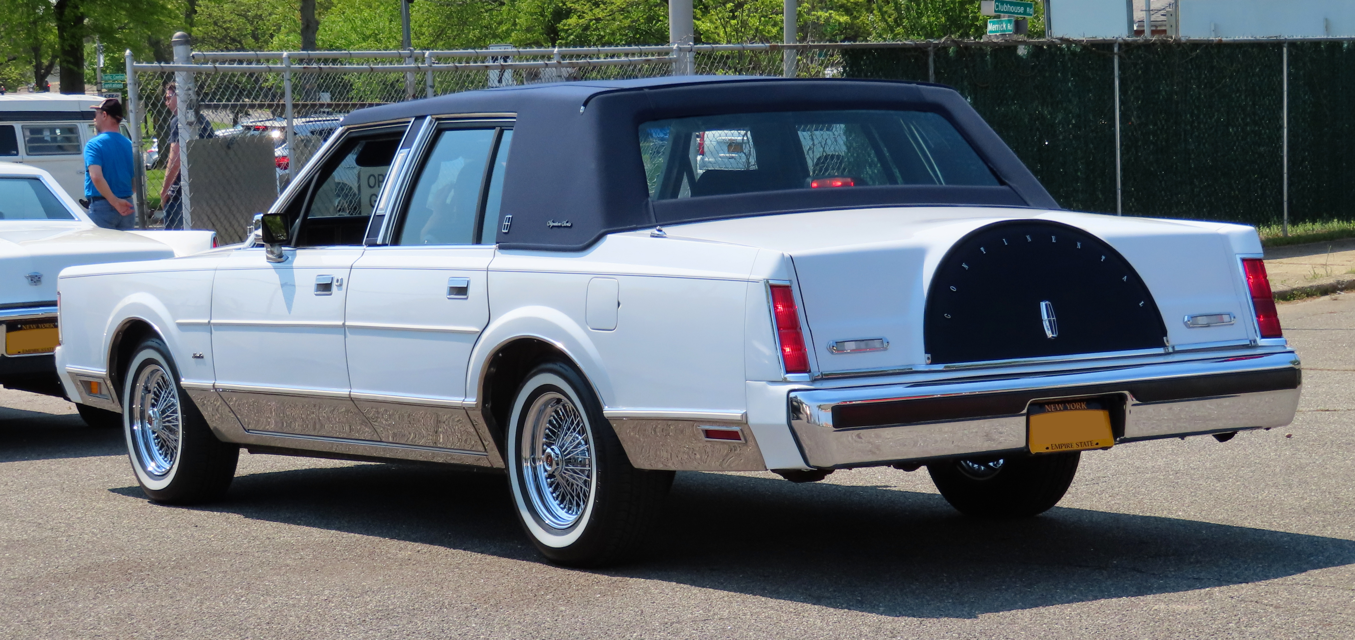 A 1986 Lincoln Town Car Signature Series photographed during at a classic car show, in Merrick, New York, USA